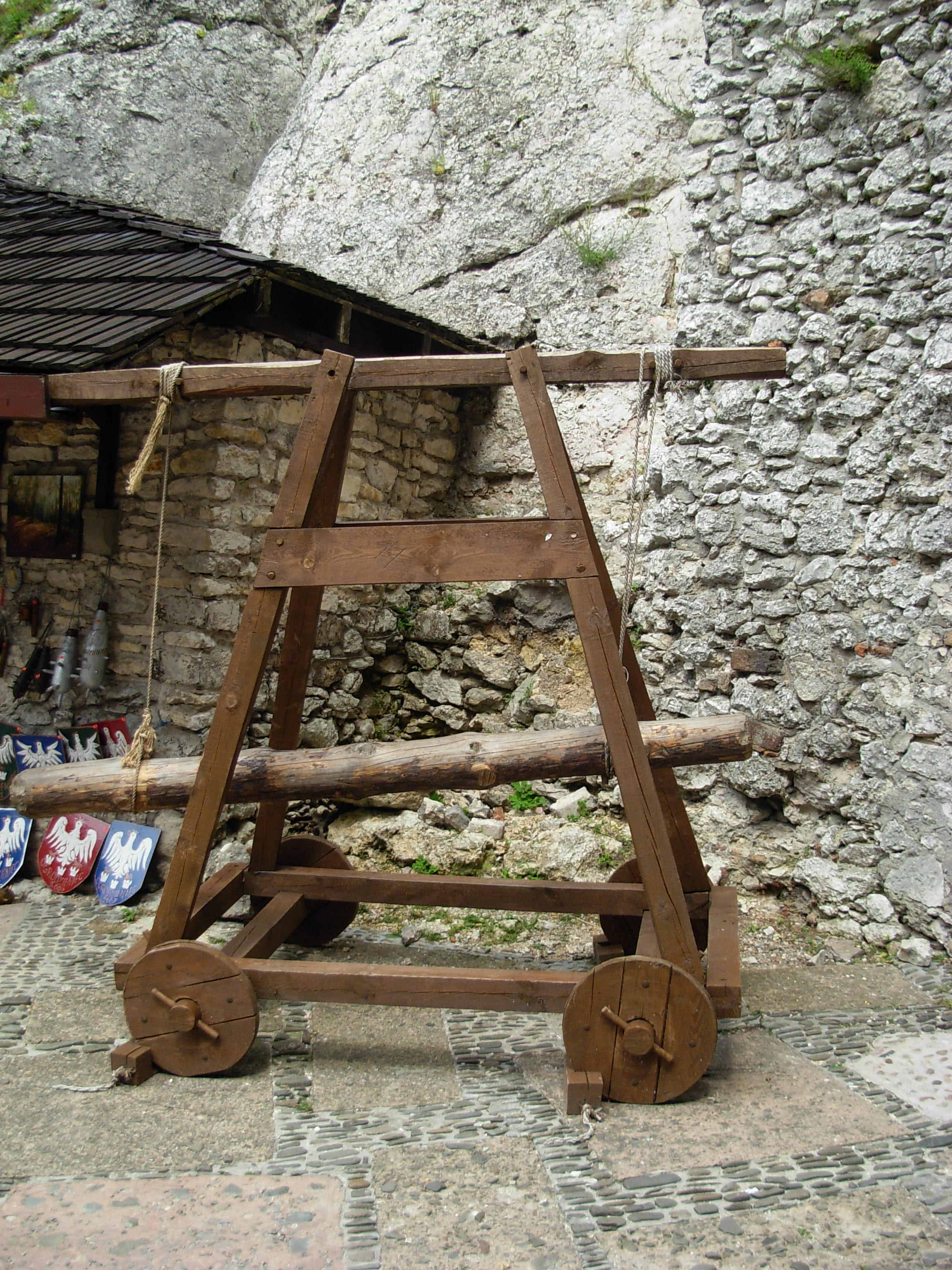 That isn't a catapult, it is a small battering ram